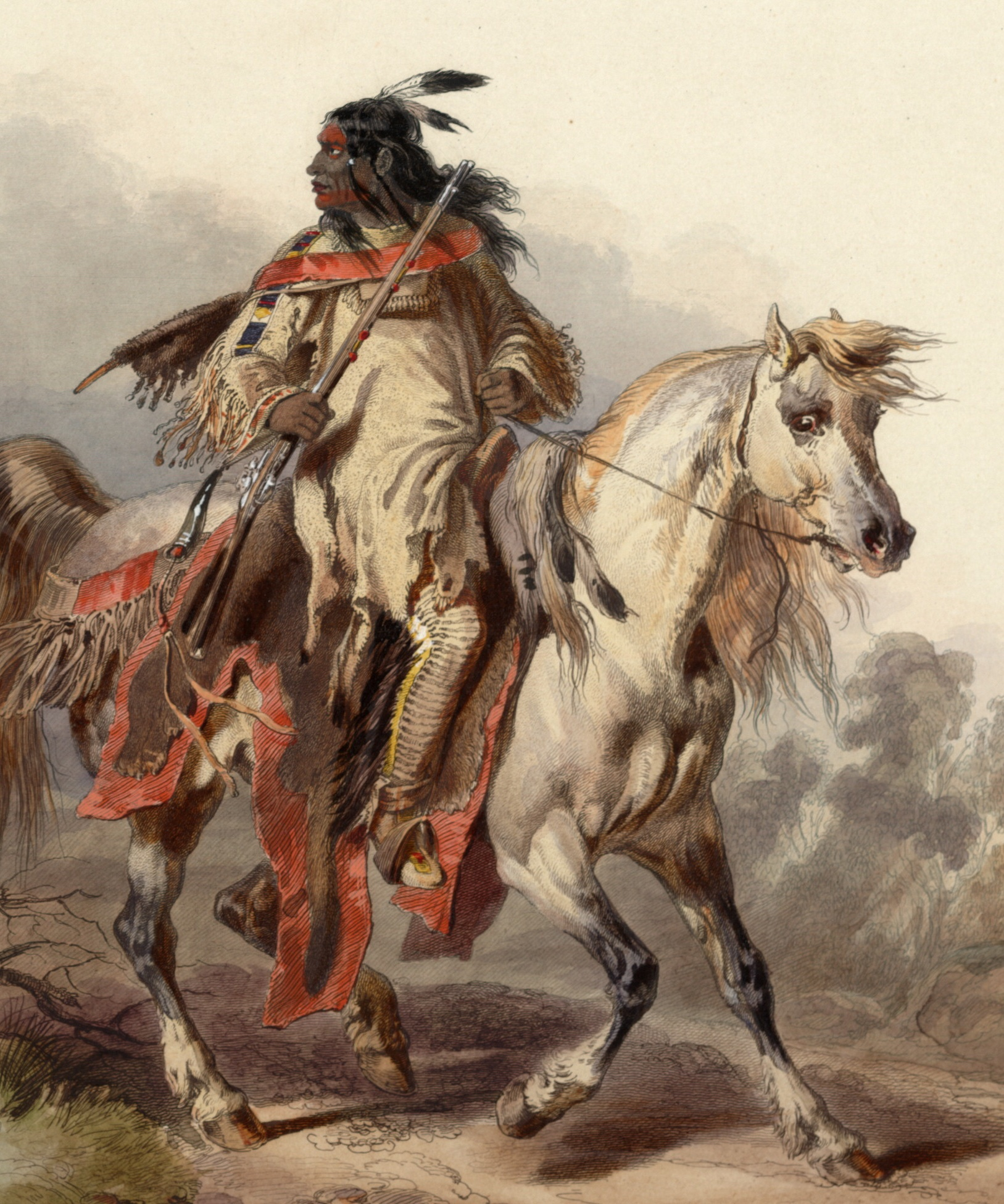 Blackfoot warrior riding a fine gray horse